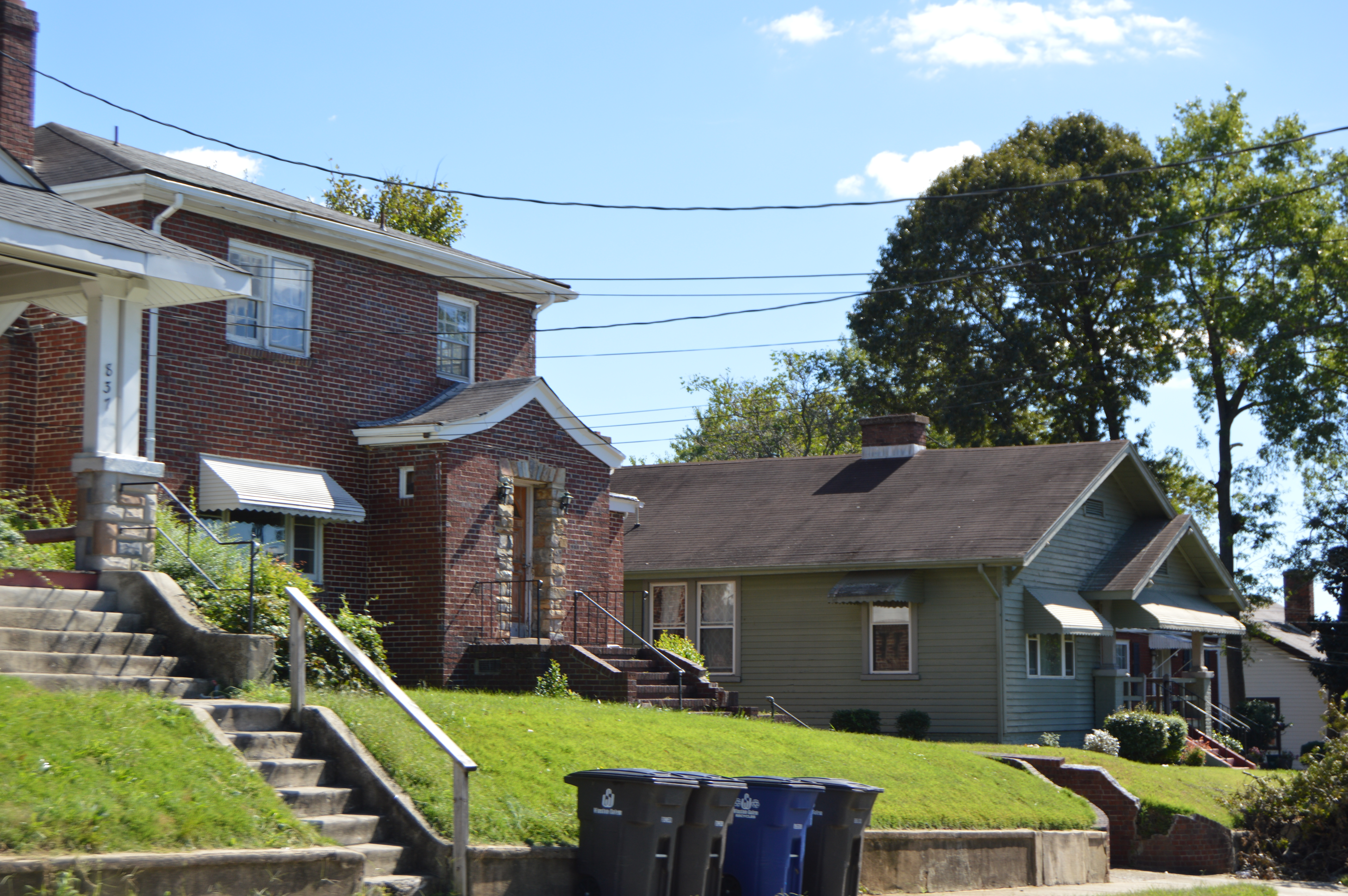 Houses on the western side of Cameron Avenue, north of Eighth Street, in Winston-Salem, North Carolina, United States. This block is part of the Reynoldstown Historic District, a historic district that is listed on the National Register of Historic Places.